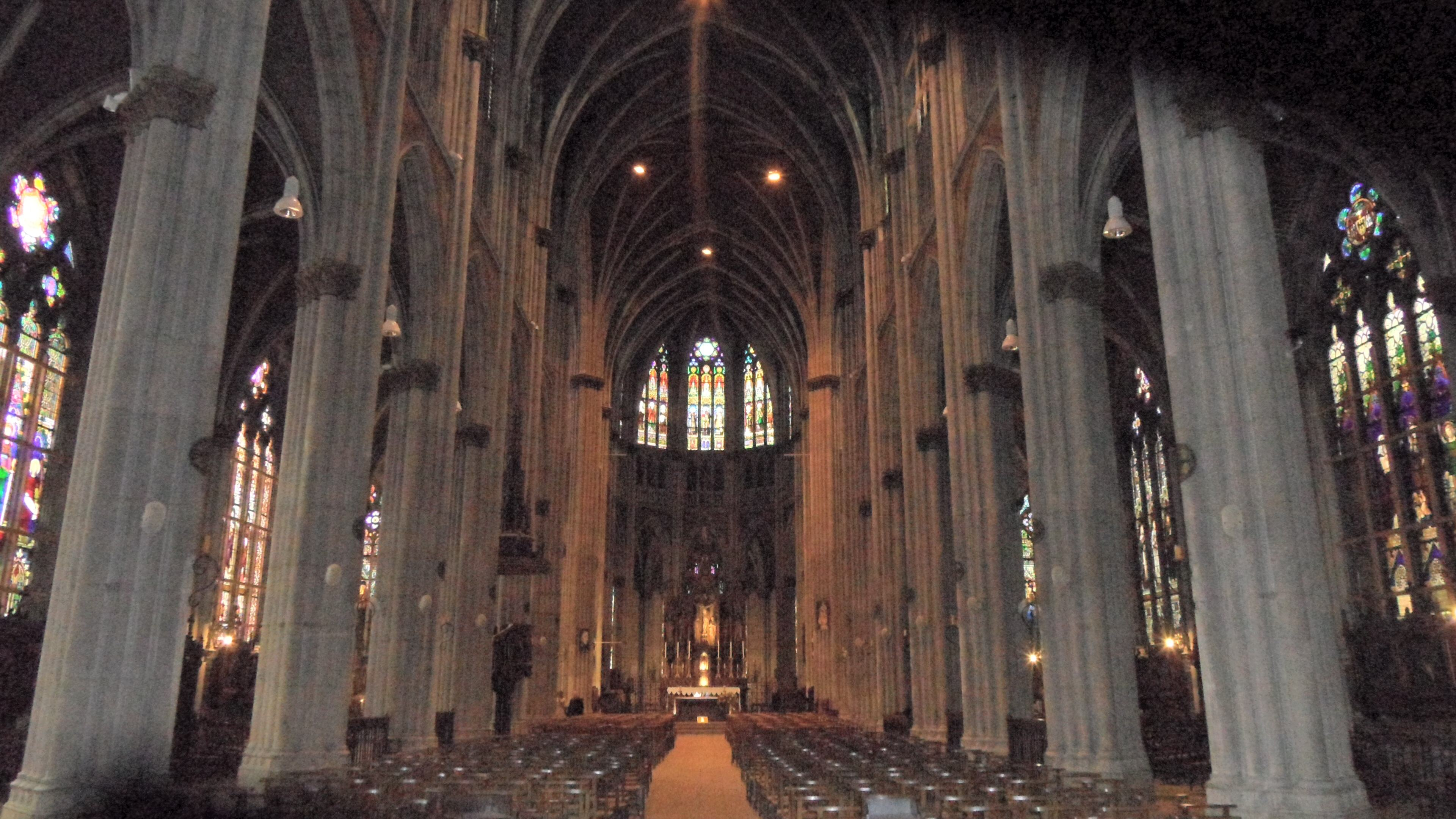 The interior of the Basilica of Saint Aprus, a large 19th century church in Nancy, France ; the first church on the site was built in 1080